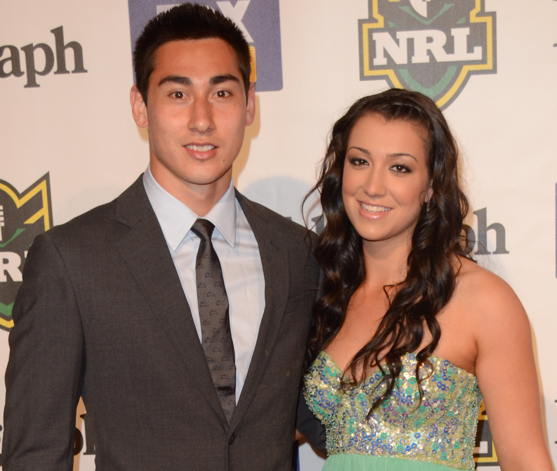 Andrew Everingham & Liat Mekler at the 2012 NRL Dally M Awards.